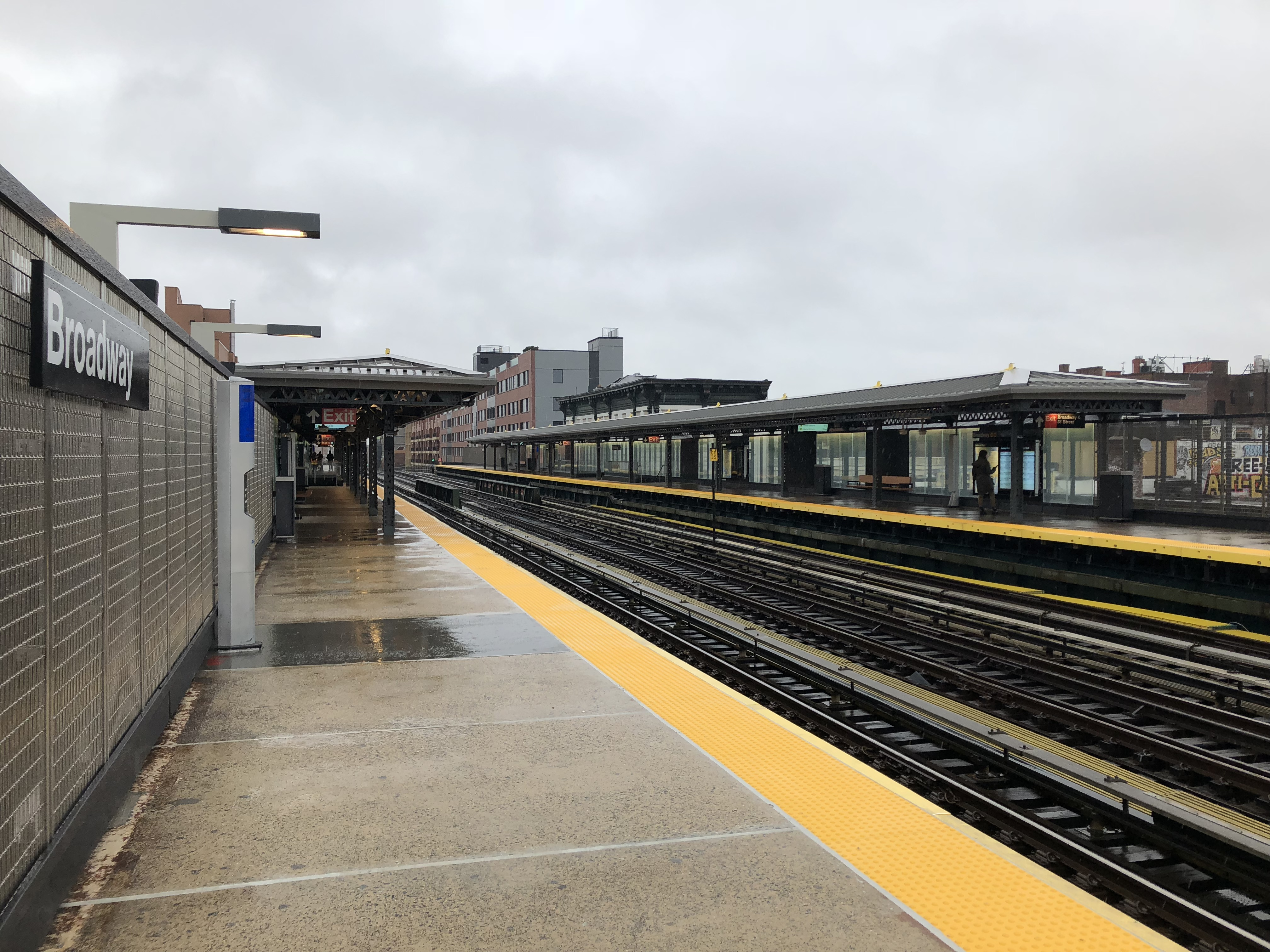 A view of the Broadway station on the Astoria Line after renovations.